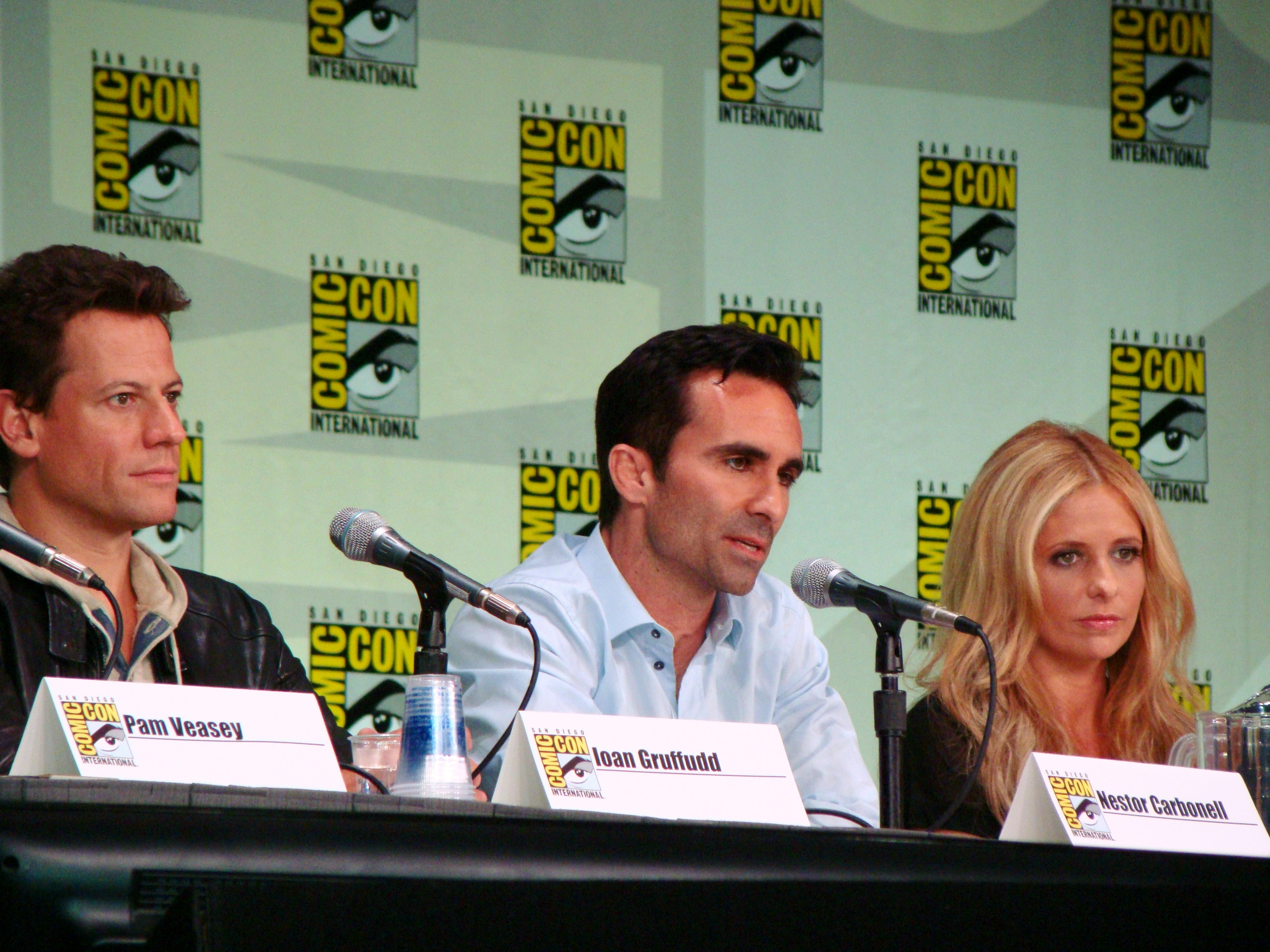 Ioan Gruffudd, Nestor Carbonell and Sarah Michelle Gellar at Ringer Panel at the 2011 Comic-Con International